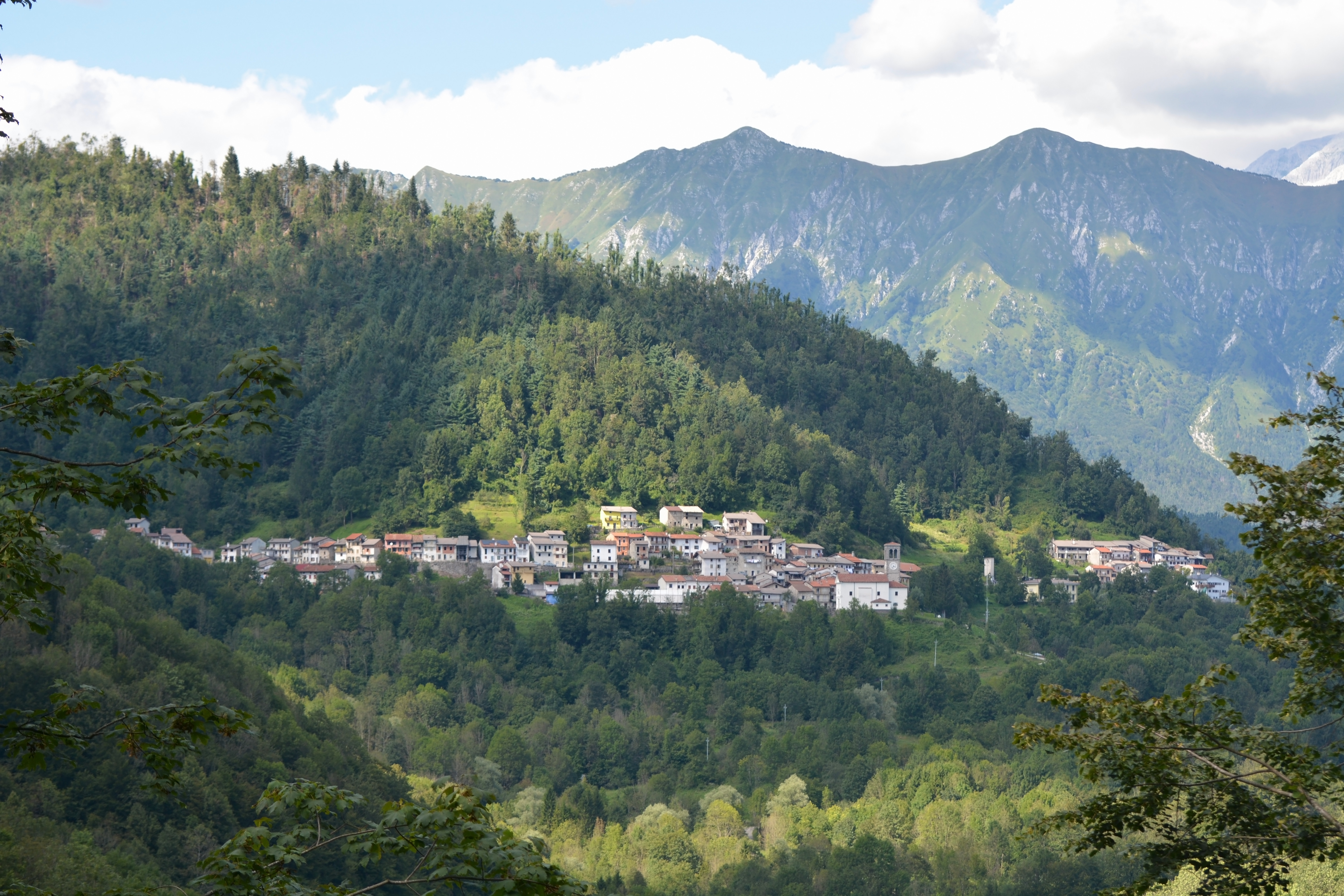 View of Prossenicco/Prosnid